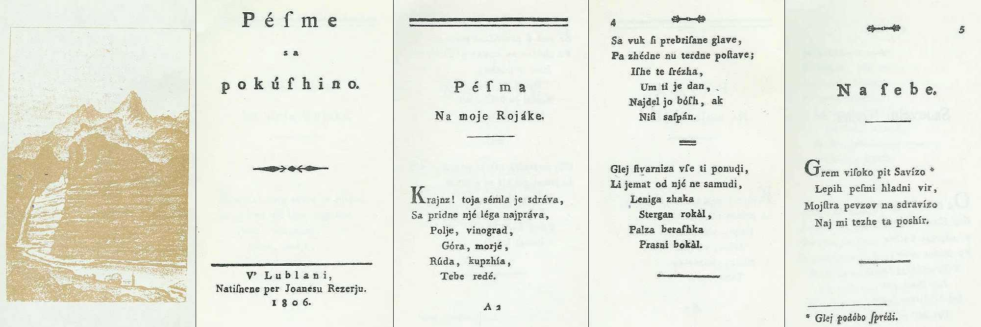 Pages 1 - 5 of "Pesme za pokušino", Bohorič alphabet. The image is a copper engraving by Vincenc Dorfmeister. It shows the Savica Falls, Lake Bohinj, Mt. Triglav, and Mt. Vršac.